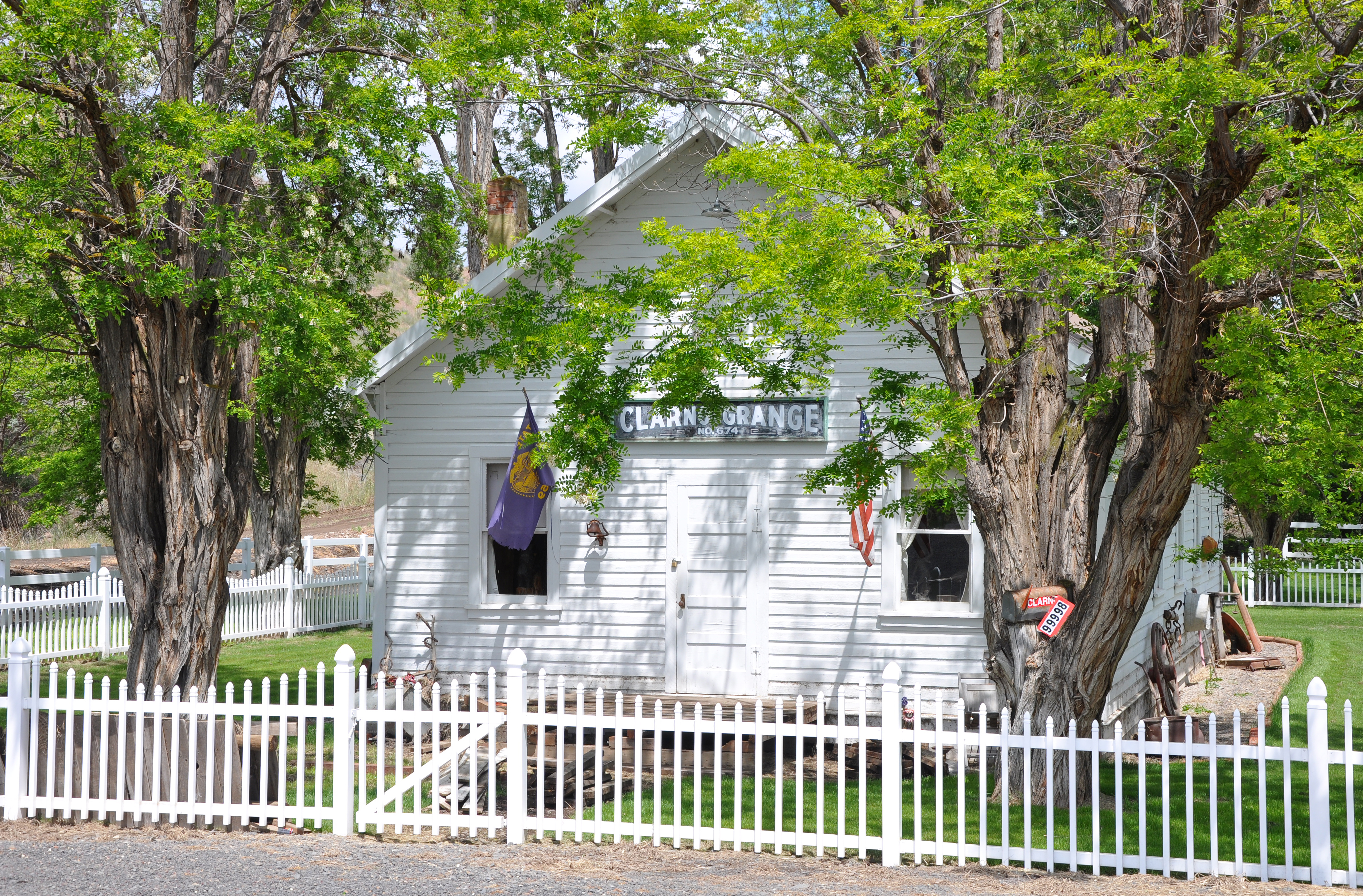 Grange hall in the unincorporated community of Clarno in the U.S. state of Oregon